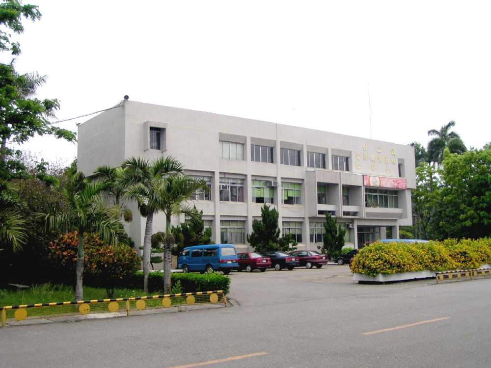 Peikang Sugar Factory, Beigang Township, Yunlin County, Taiwan